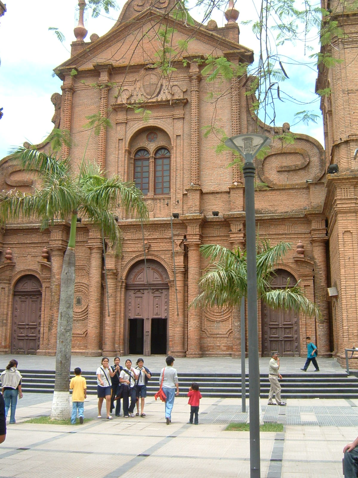 Cathedral of Santa Cruz de la Sierra - Bolivia